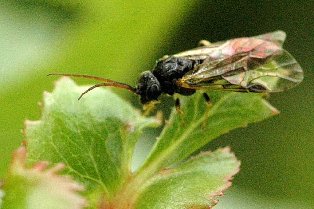 Pristiphora geniculata from Commanster, Belgian High Ardennes .